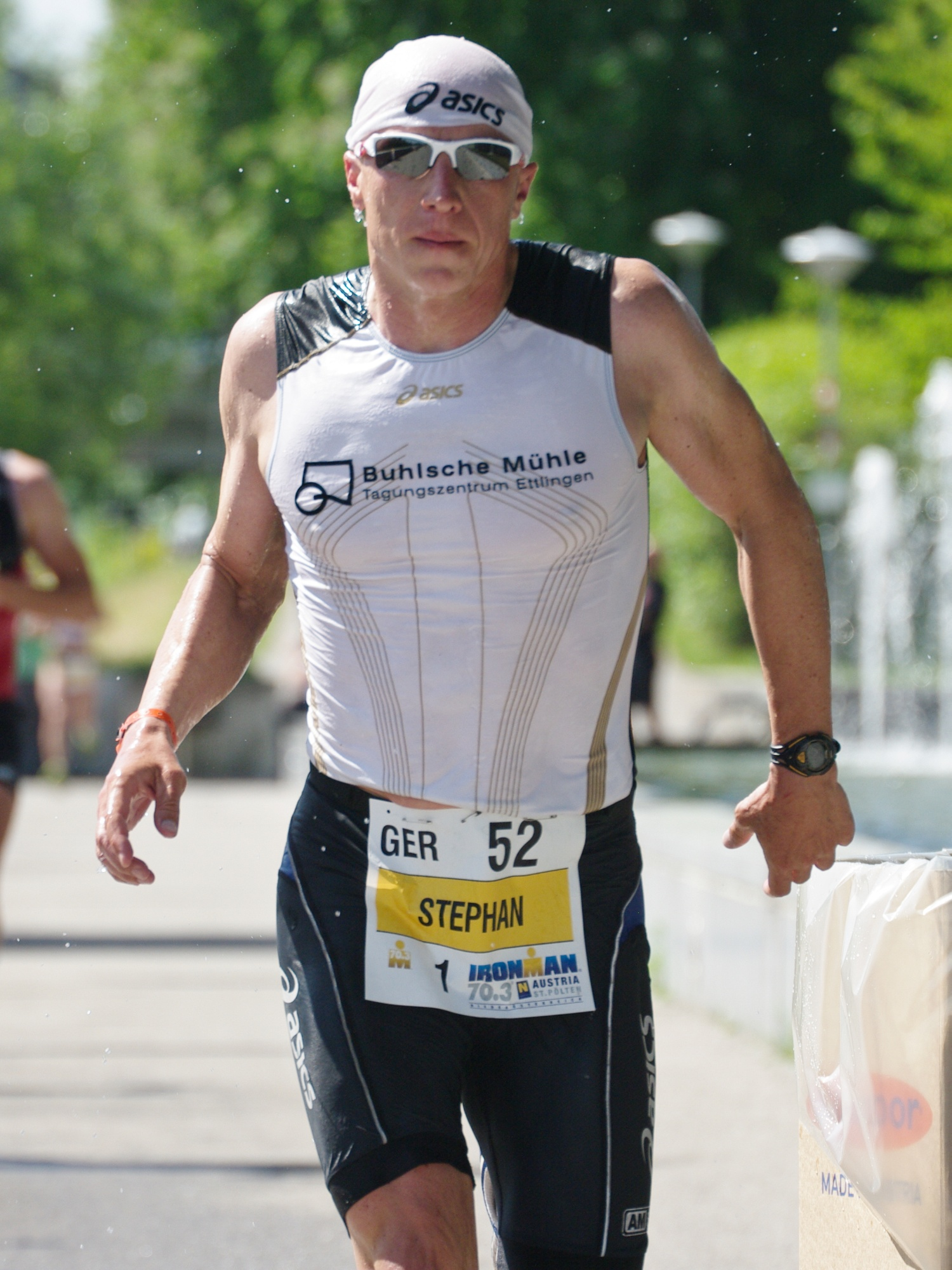 German triathlete Stephan Vuckovic in the Ironman 70.3 Austria on 20 May 2012 in St. Pölten.